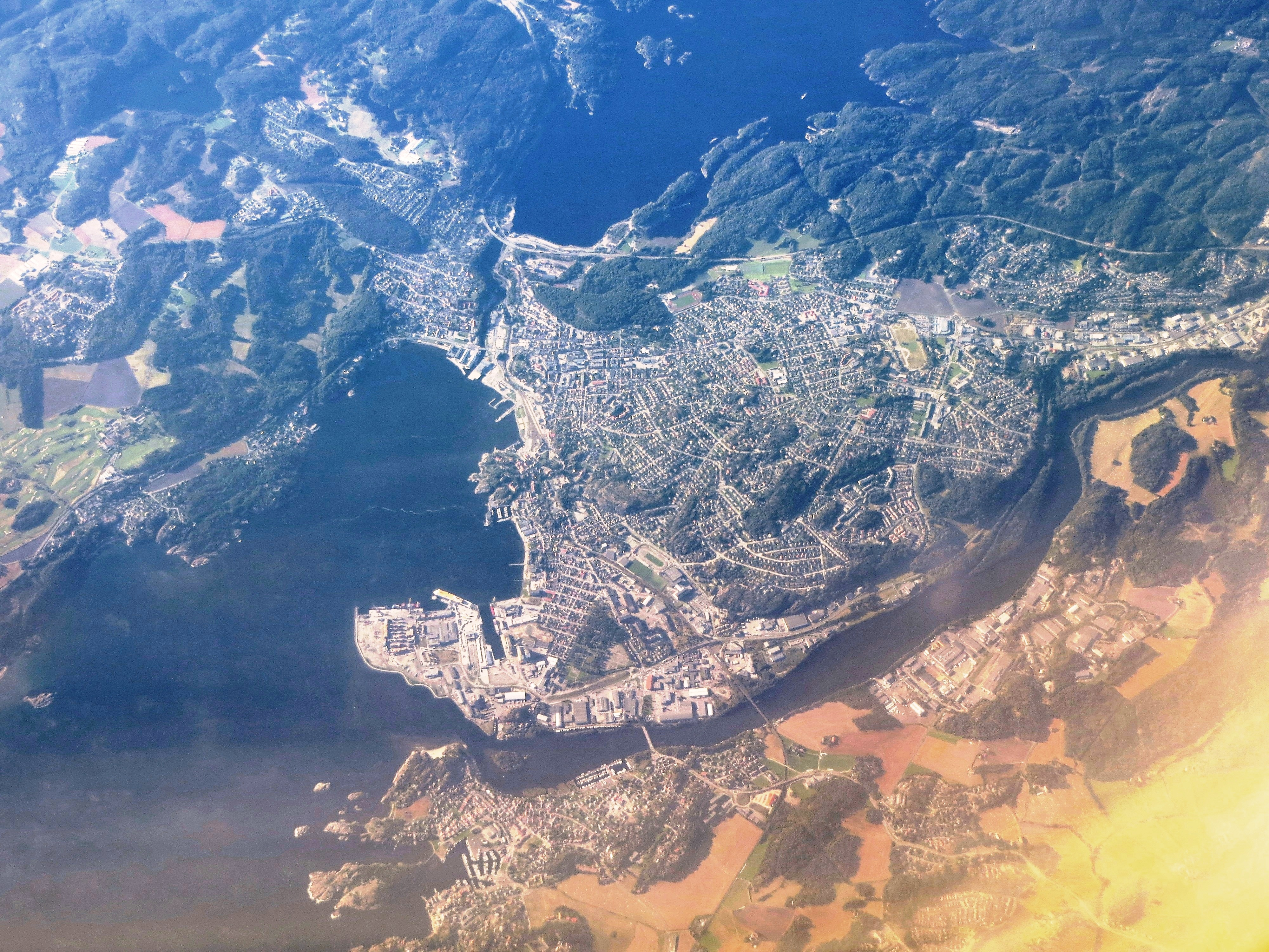 Aerial view of the city of Larvik, from the east towards west. This city is located at the mouth of the river Lågen (Numedalslågen), in Vestfold county, Norway.